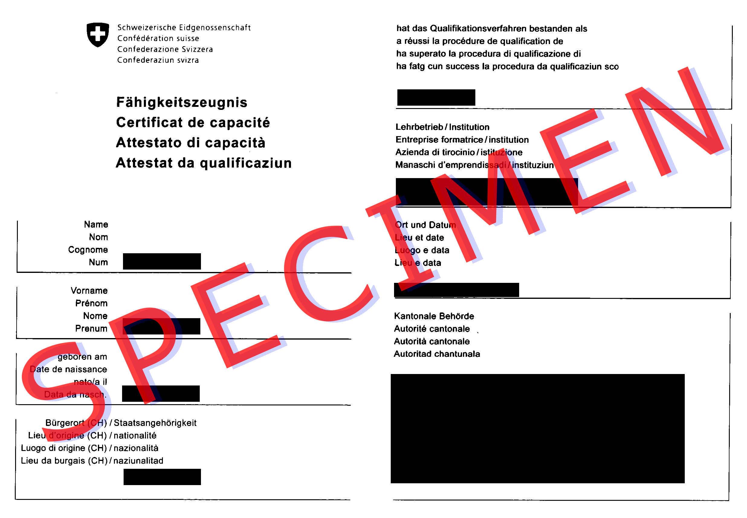 Federal Vocational Diploma.